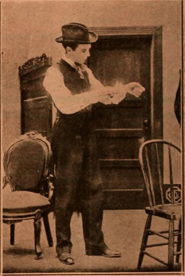 A film still from The Playwright's Love by Thanhouser.